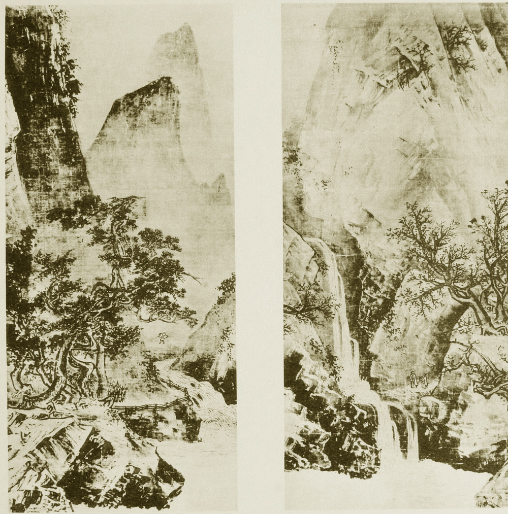 Landscape , hanging scroll landscapeTwo hanging scrolls, ink on silk, 98.1 × 43.4 cm (38.6 × 17.1 in), Li Tang? , Southern Song Dynasty, Kōtō-in, Kyoto, Japan